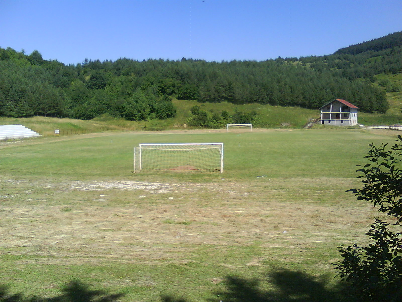 Football stadium in Kupres }